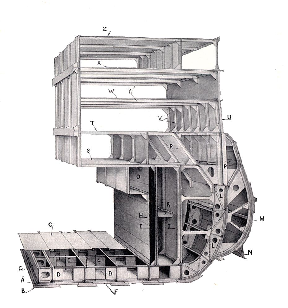 Royal Sovereign—Midship section AInner flat keel plateBOuter flat keel plateCVertical keel platesDBracket platesELongitudanalsFOuter bottom platingGInner bottom platingHLongitudinal bulkheadIAir spaceJLongitudinal protective bulkheadKOiltight flatLLightened plate framesMProtective side keelNBilge keelOElectric lead and pipe passageP520 lb. side armourRSloped protective deckSMiddle deckTMain deckU240 lb. side armourVZed bar framesWUpper deckXForecastle deckYDeck beamsZShelter deck